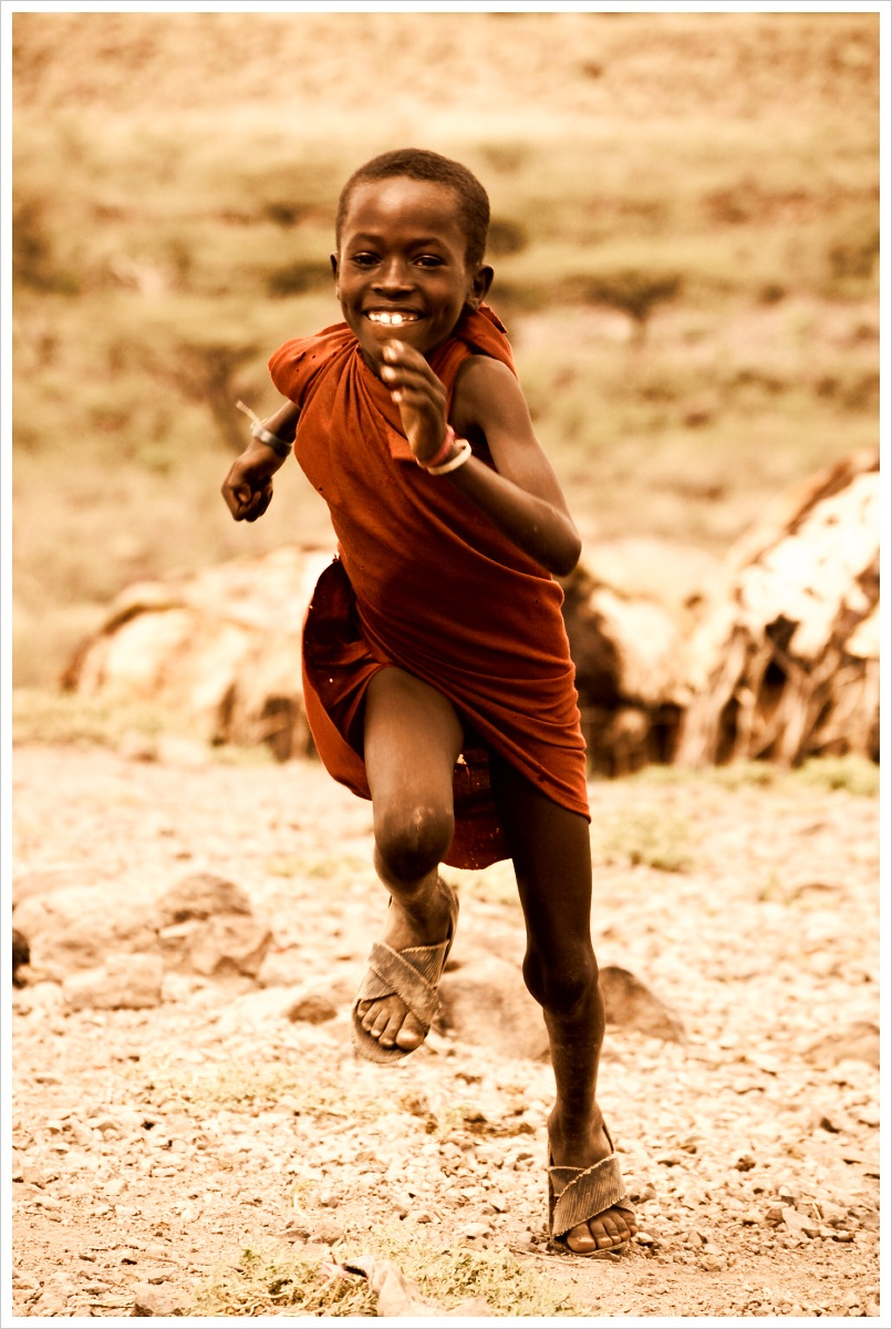 Running Samburu Boy.